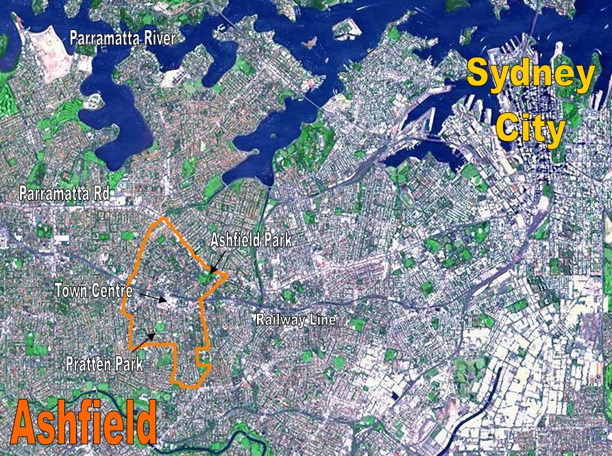 Location Map for the suburb of Ashfield, NSW based on NASA satellite map. Modified to identify suburb boundaries and identifiable landmarks.